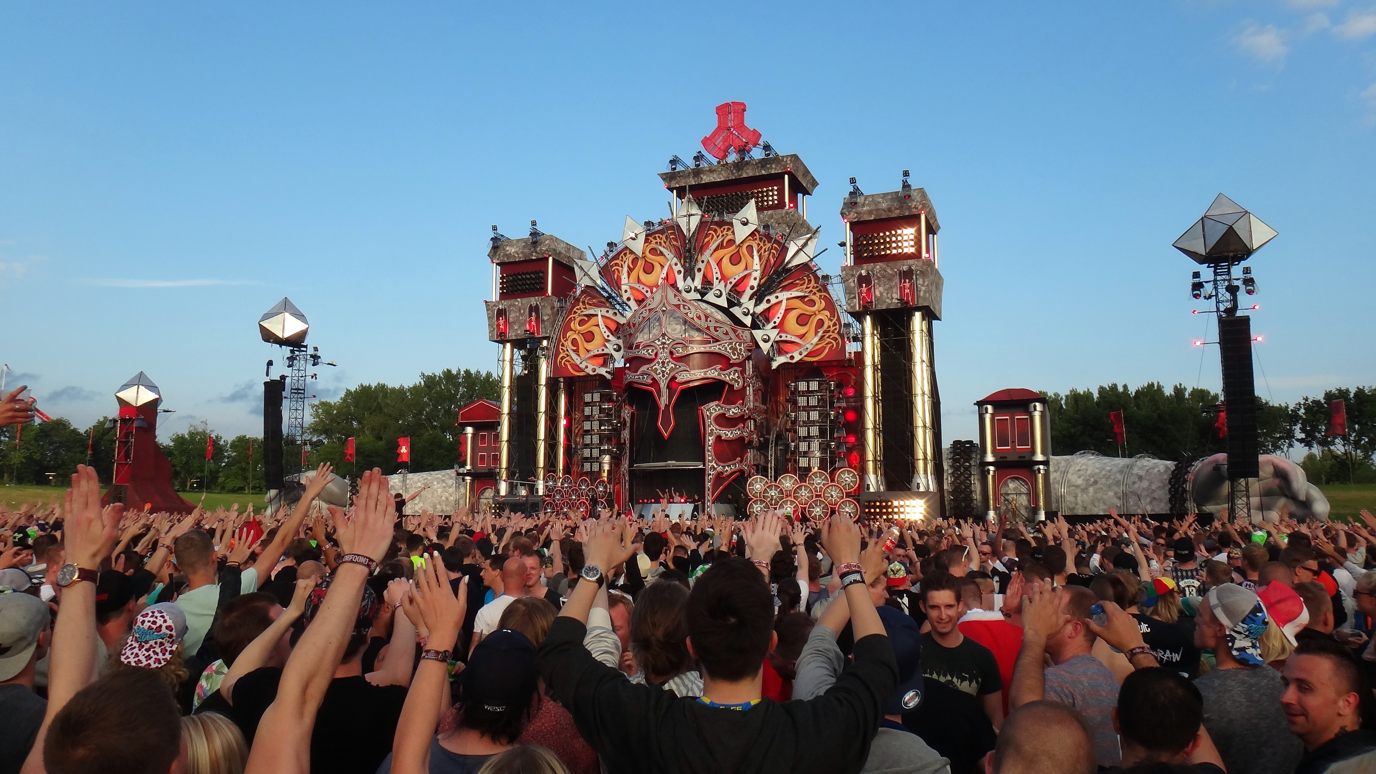 The Red stage at Defqon.1 2015.